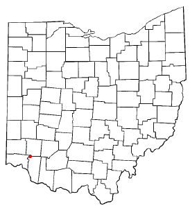 County map of Ohio, with a red dot at Loveland, which is located in three counties.